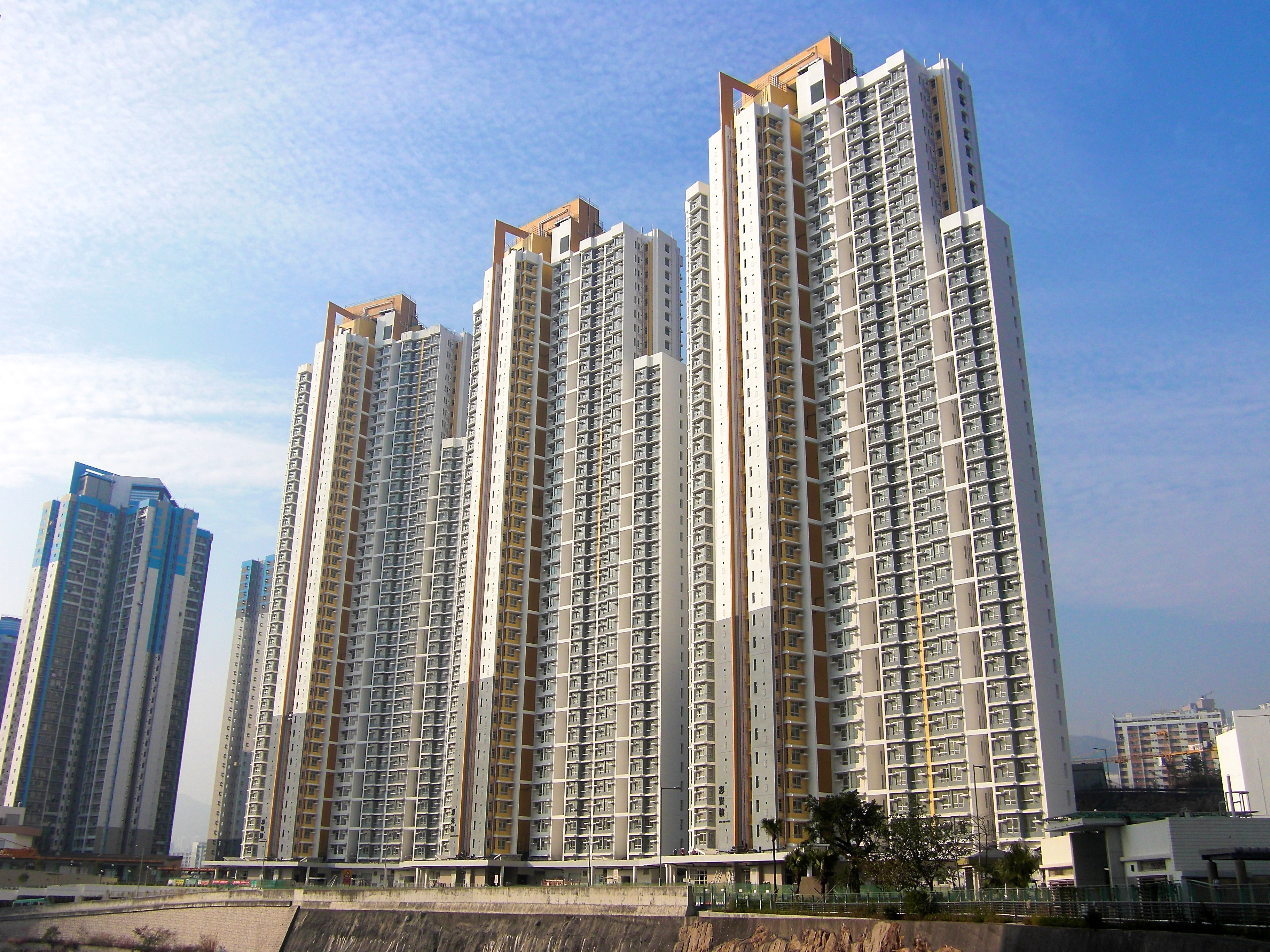 A view of Choi Tak Estate Phase 2 from Choi Hei Road Park, Choi King House, Choi Leung House and Choi Yin House stands in the background from left to right, respectively.